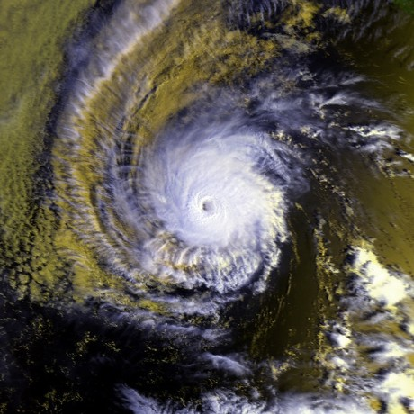 Hurricane Ramon on October 10 at approximately 1541 UTC. This image was produced from data from NOAA-10, provided by NOAA.